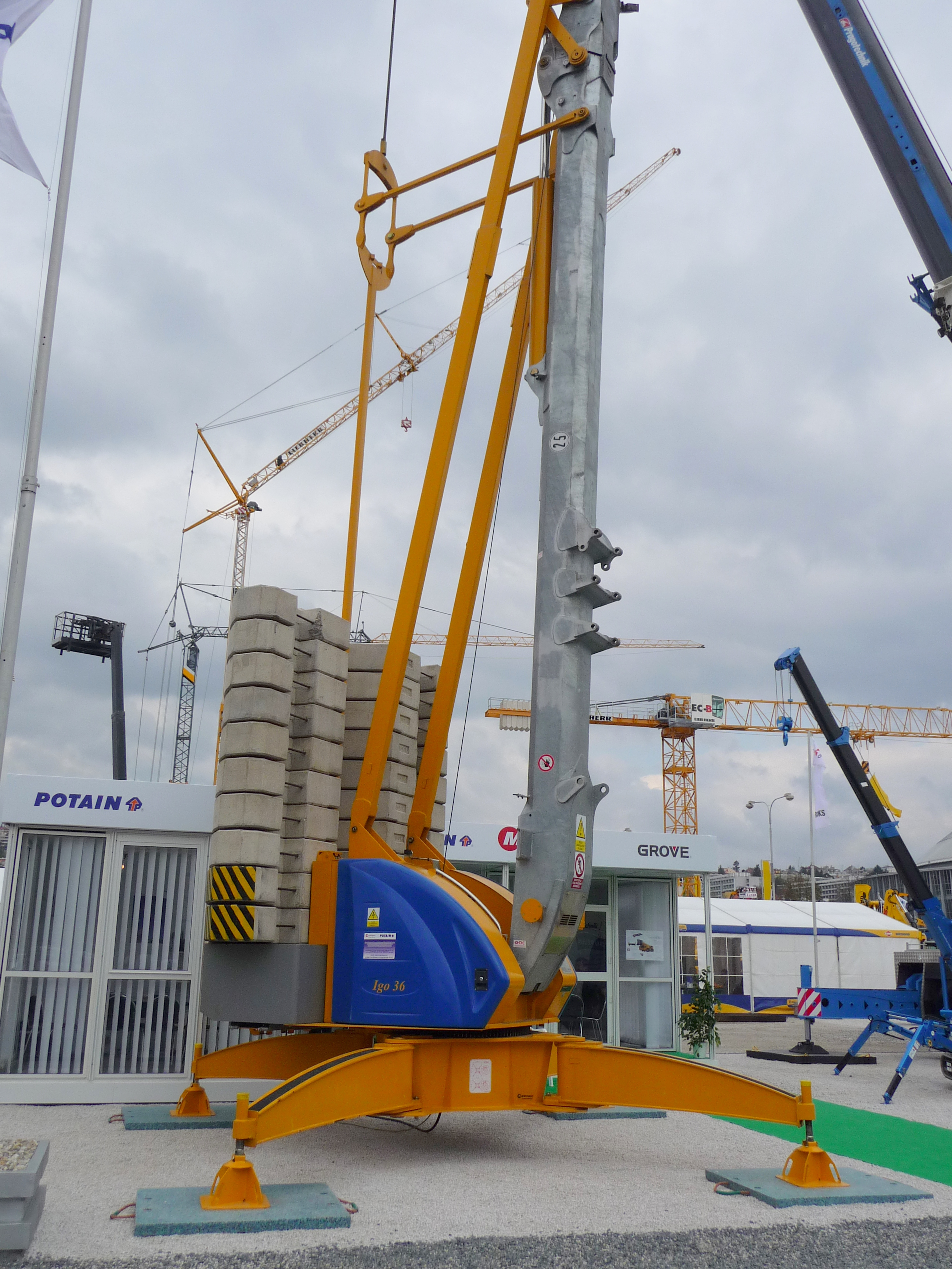 Self-erecting tower crane Potain IGO 36, Building Fairs Brno 2011 -10 -5 -3 -2 ◄ ► +2 +3 +5 +10